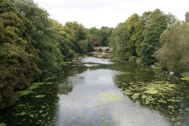 River Stour, Blandford Forum Looking south west from the footbridge.